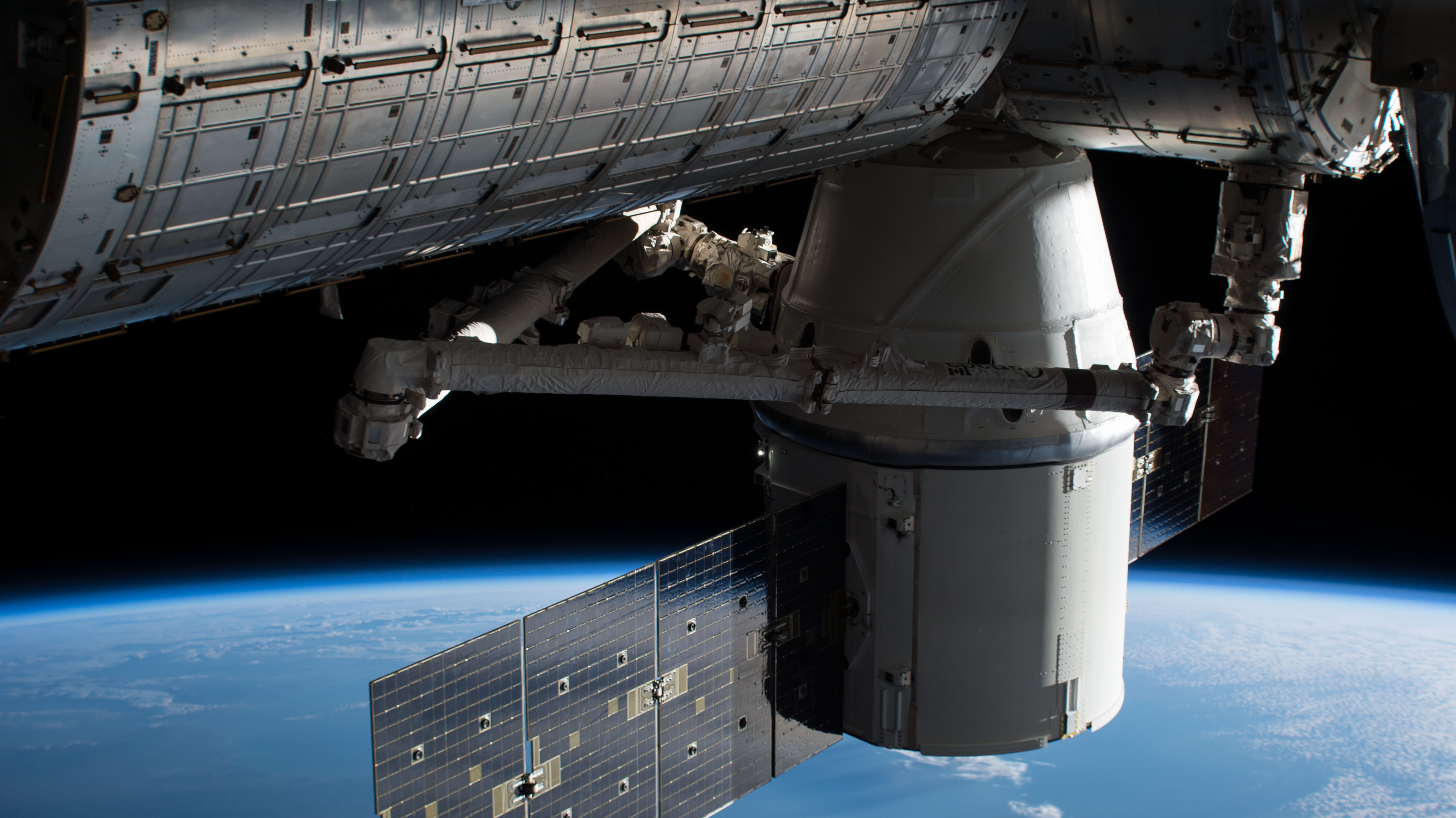 The SpaceX Dragon cargo craft is pictured attached to the Harmony module after it arrived on Dec. 17. 2017.